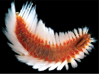 Notopygos caribea holotype. Photo: Leslie Harris.